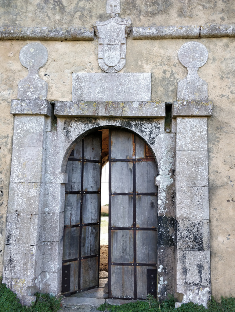 Entrance to the Fort of Paimogo near Lourinhã in Portugal